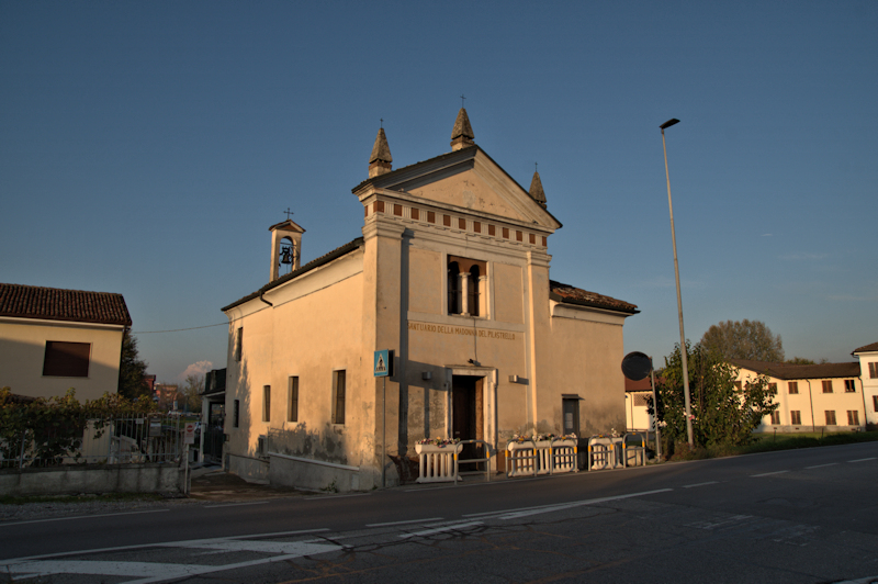 External view of the Sanctuary of Madonna del Pilastrello